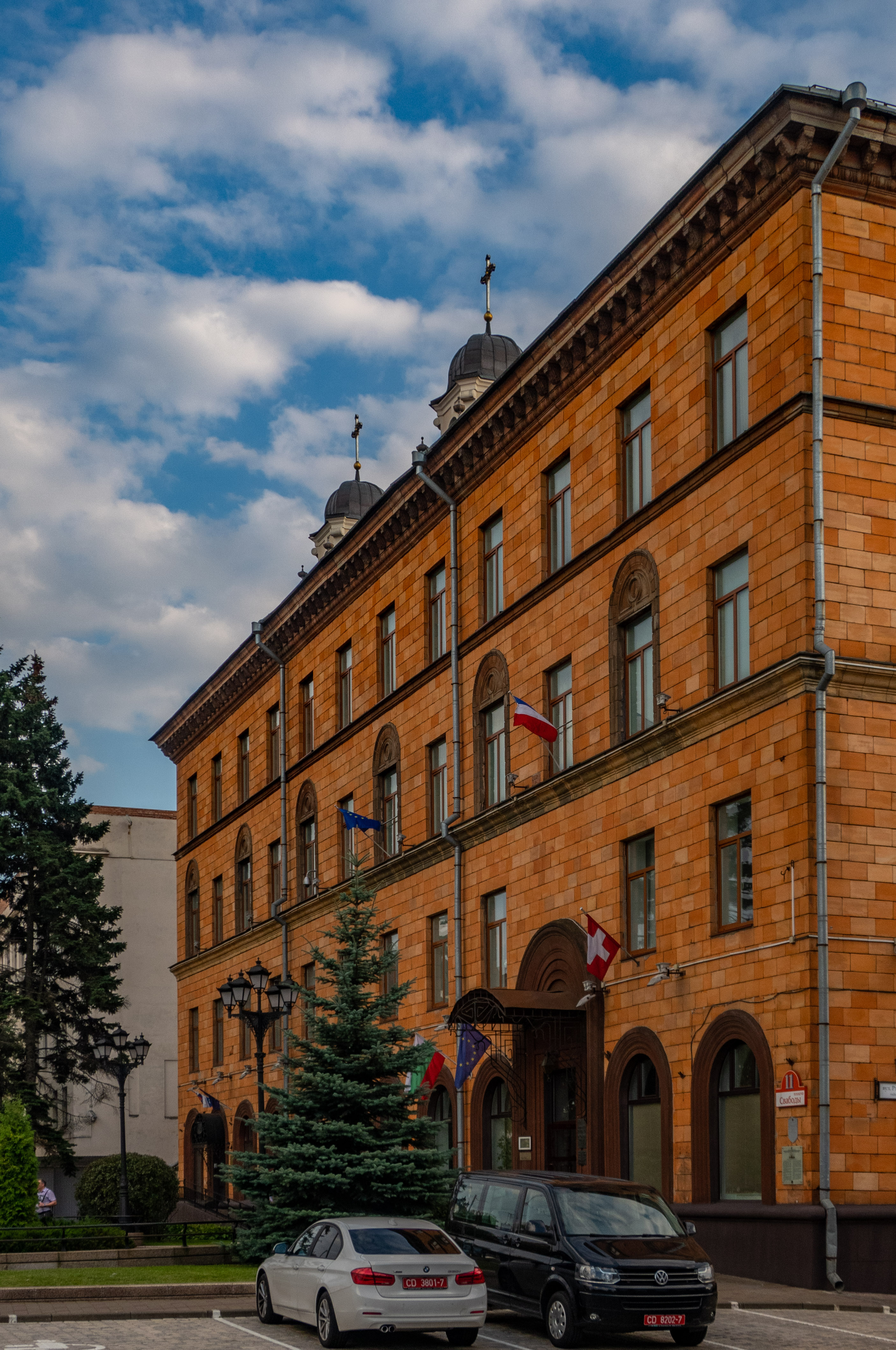 Embassies of Bulgaria, France and Switzerland in Belarus in Minsk